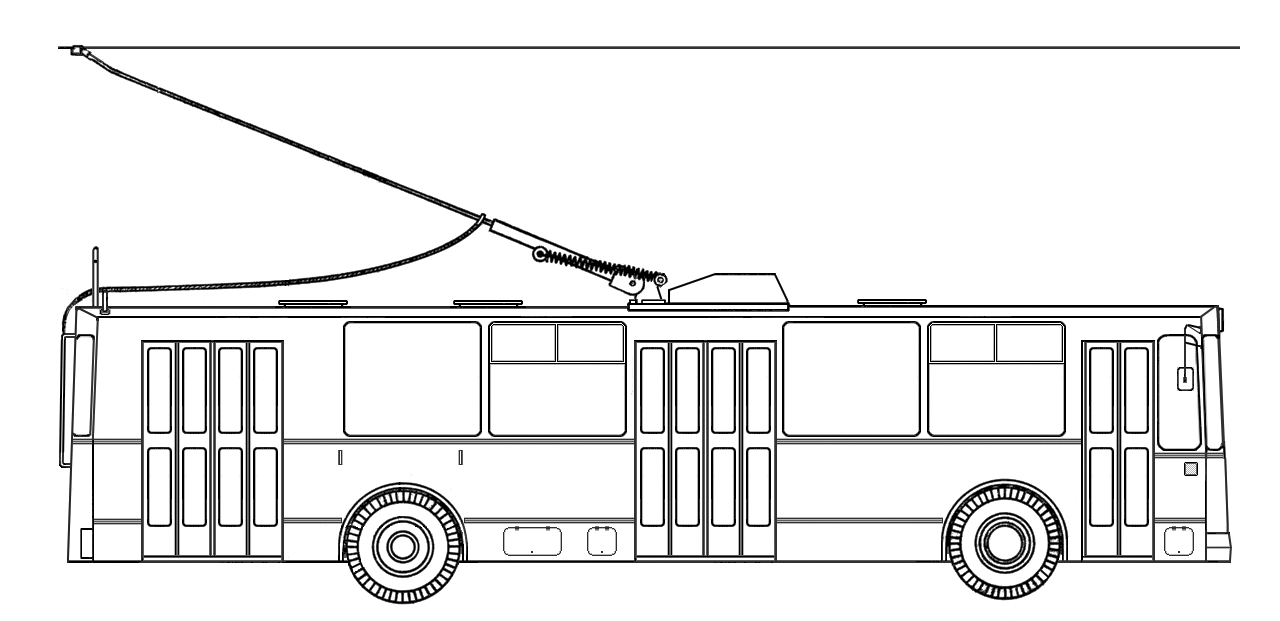 Sketch of Soviet/Russian trolleybus ZiU-9